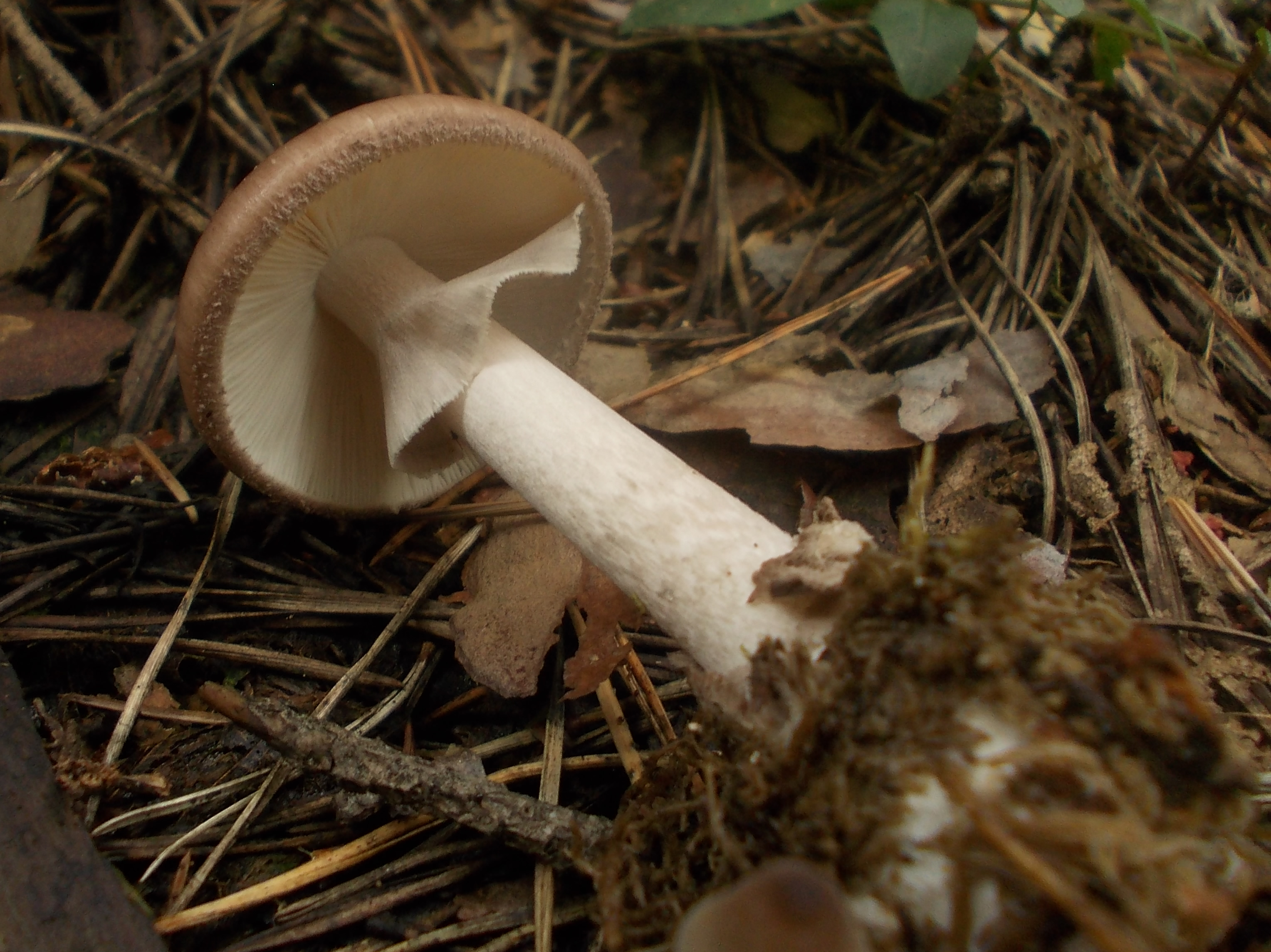 Amanita porphyria Alb. & Schwein. Image location: Ramensky District, Moscow Oblast, Russia Recognized by sight For more information about this, see the observation page at Mushroom Observer.